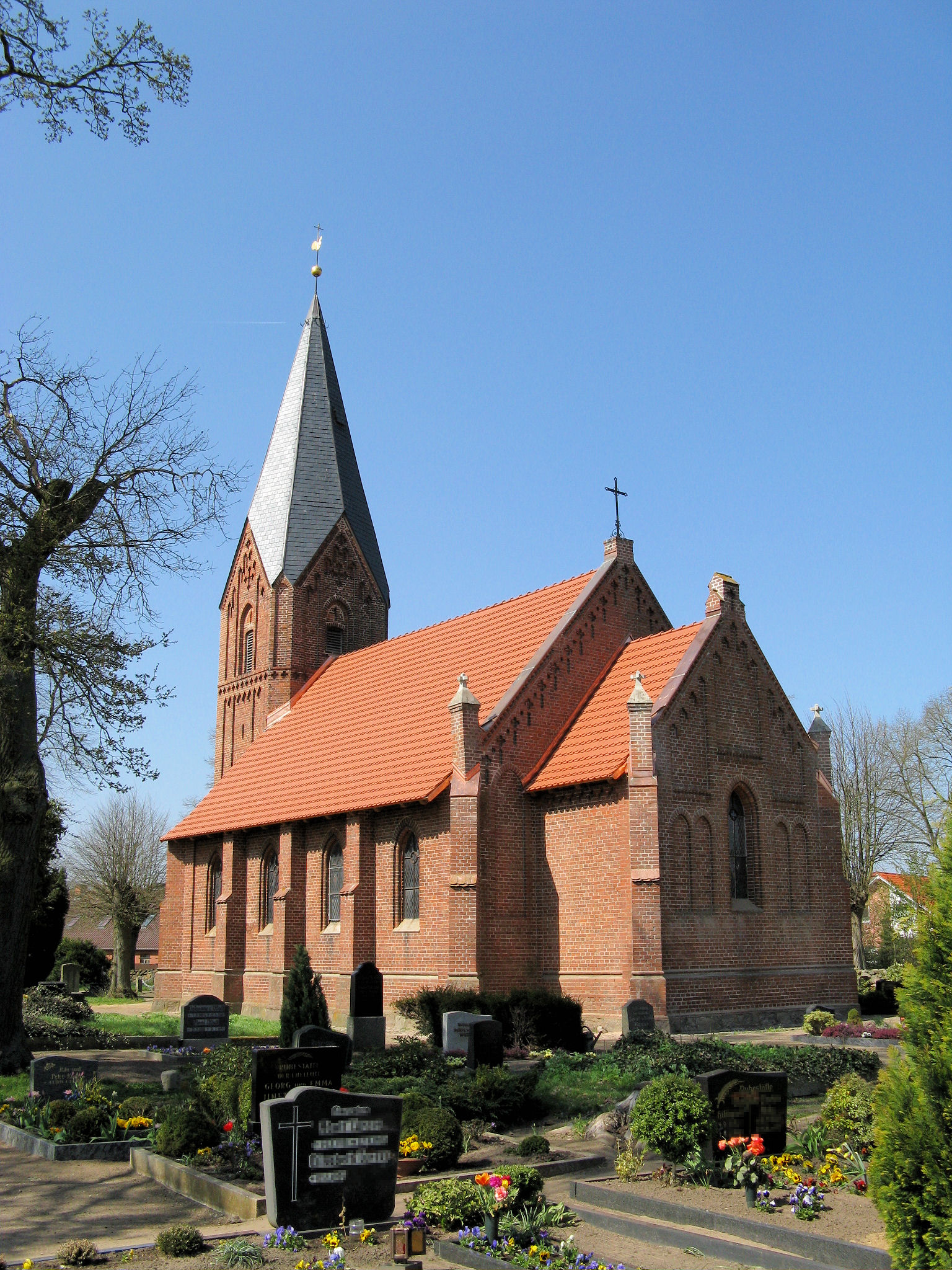 Church in Barnin, district Ludwigslust-Parchim, Mecklenburg-Vorpommern, Germany